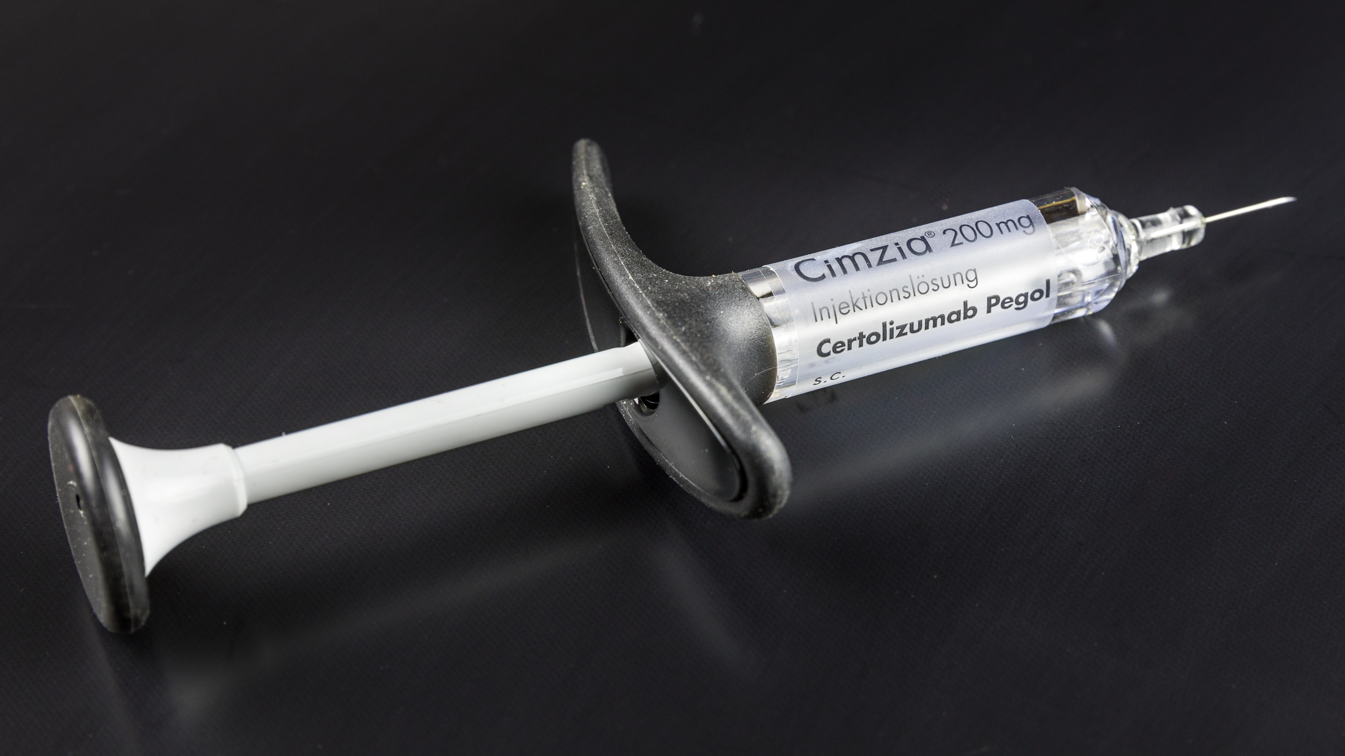 Syringe with Certolizumab pegol (Cimzia), 200 mg